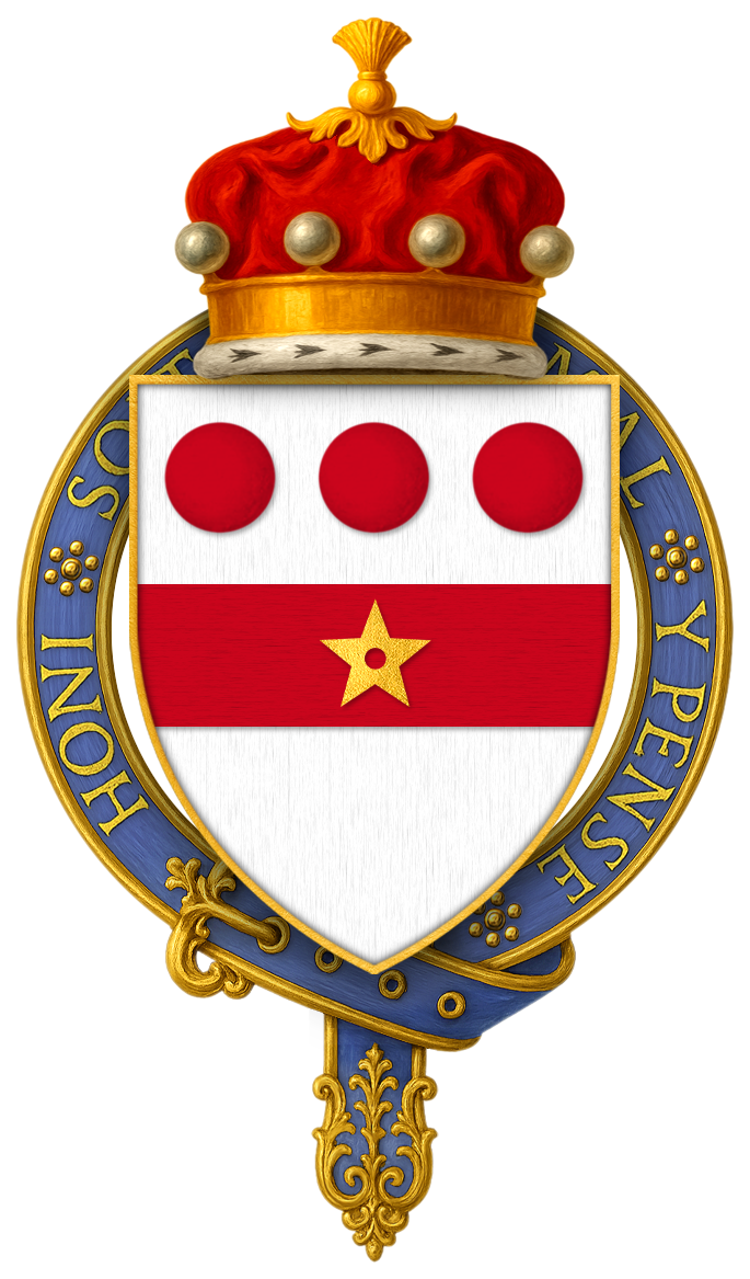 Sir John Devereux, 1st Baron Devereux, KG HOPE, W. H. St. John, The Stall Plates of the Knights of the Order of the Garter 1348 – 1485: A Series of Ninety Full-Sized Coloured Facsimiles with Descriptive Notes and Historical Introductions, Westminster: Archibald Constable and Company LTD, 1901. “ Sir John Devereux, Lord Devereux… arms, silver a fess and three roundels gules in chief, a mullet gold for difference. ” FOSTER, Joseph, Some Feudal Coats of Arms from Heraldic Rolls 1298-1418, London; & Oxford: James Parker & Co., 1902. “ Devereux (-----) bore, at the siege of Rouen 1418, argent, a fess gules and in chief three torteaux (F.)… Sir John, K.G. baron 1384-94, differenced with a mullet pierced or (R. 11.); Surrey Roll. ” BELTZ, George Frederick, Memorials of the Order of the Garter from Its Foundation to the Present Time, London: William Pickering, 1841. “ John Second Lord Devereux… Arms: Argent, on a fess Gules an estoile Or; in chief three torteaux. ”